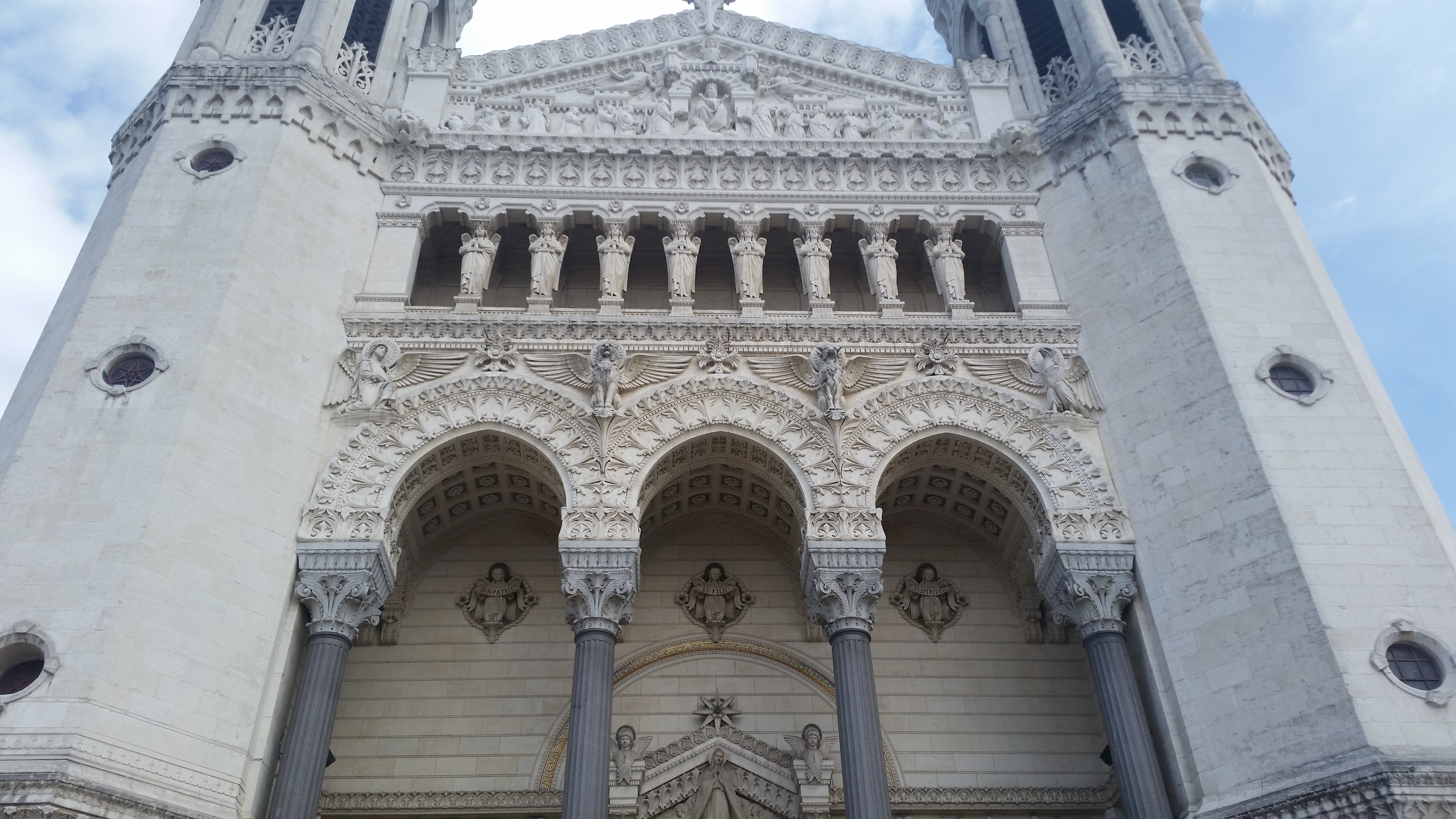 Front of Basilique Fourvière in Lyon